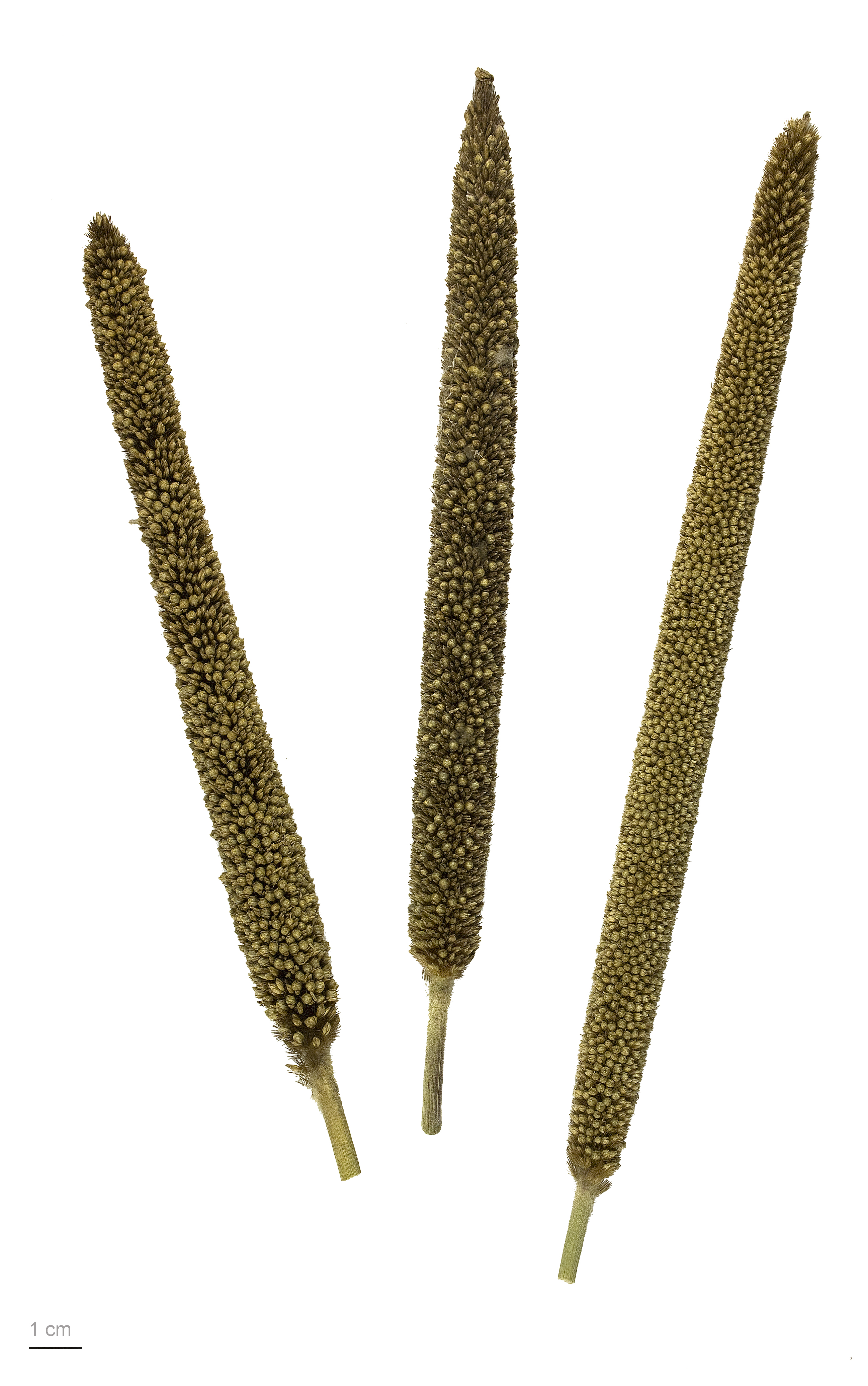 Pearl millet, fruits and seeds